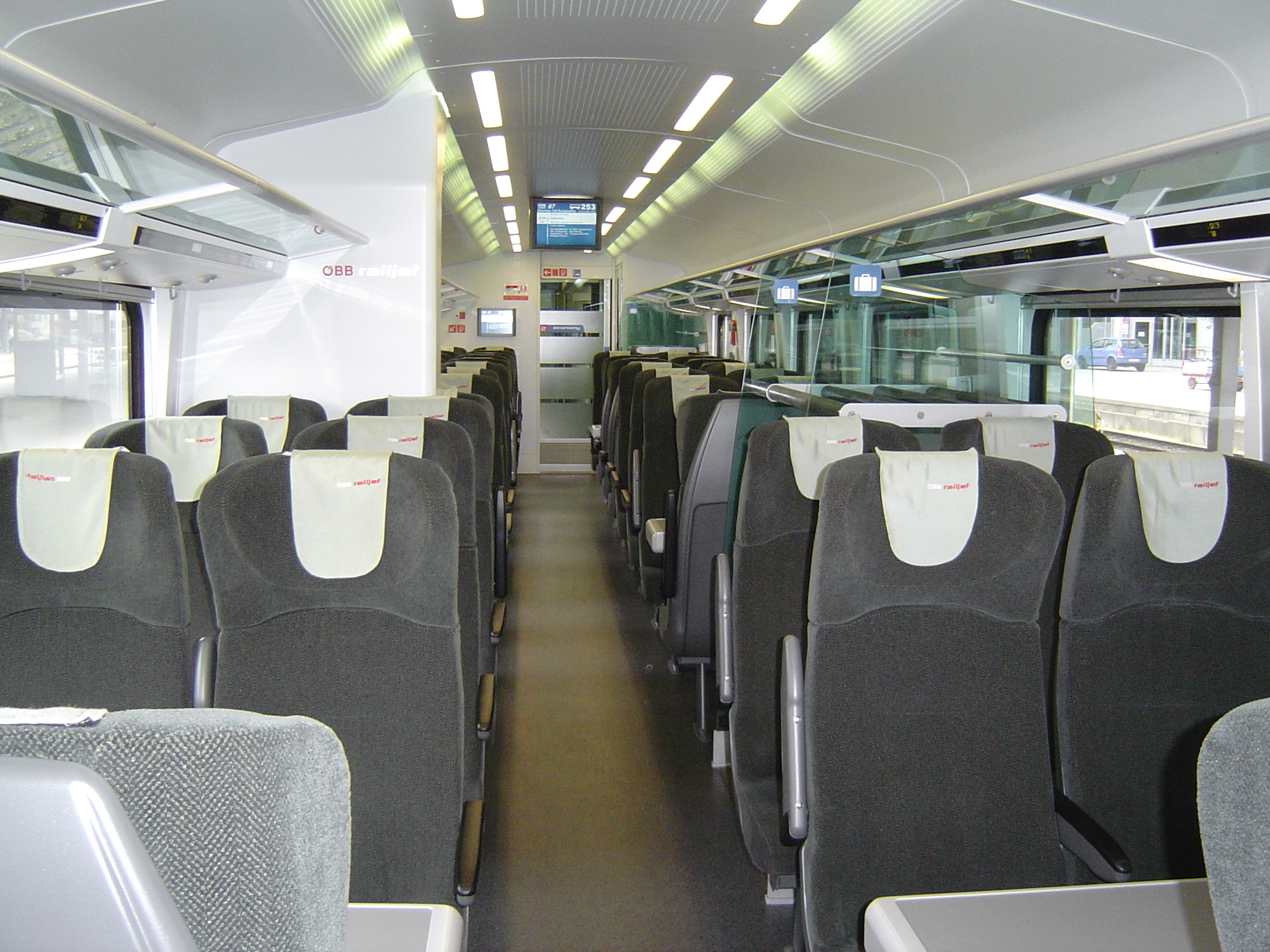 ÖBB Railjet at Munich Main Station, Economy Class